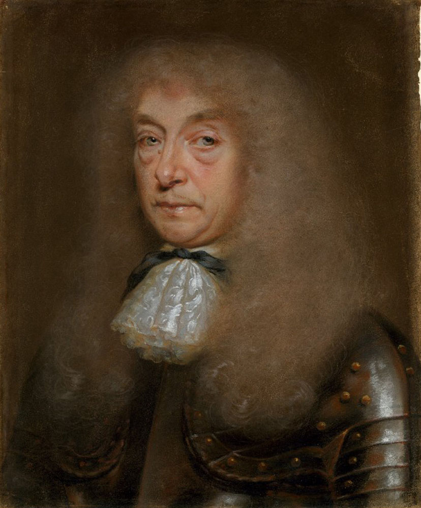 Portrait of an unknown sitter, generally identified as the Scottish politician Sir John Maitland, 1st Duke of Lauderdale (1616-1682)